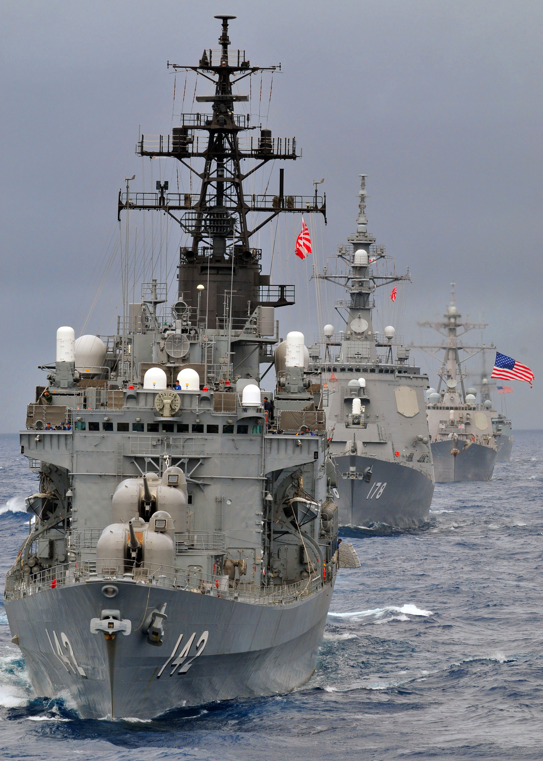 PACIFIC OCEAN (Nov. 17, 2009) The Japan Maritime Self-Defense Force ships, the Haruna-class helicopter destroyer JS Hiei (DDH-142) and the Atogo-class guided-missile destroyer JS Ashigara (DDG-178), and the U.S. Navy ships, the Arleigh Burke-class guided-missile destroyer USS Curtis Wilbur (DDG 54) and the Oliver Hazard Perry-class guided-missile frigate USS Crommelin (FFG 37), are underway in formation during Annual Exercise (ANNUALEX 21G). Ships from the U.S. Navy and Japan Maritime Self-Defense Force are participating in the bilateral exercise designed to enhance the capabilities of both naval forces. (U.S. Navy photo by Chief Mass Communication Specialist Ty Swartz/Released) Nikon D300